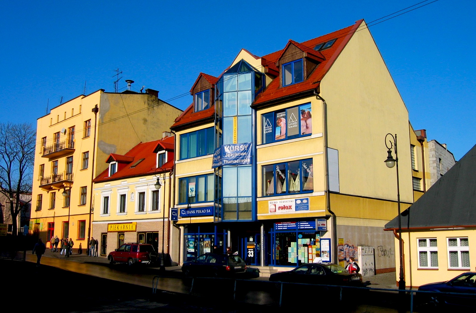 Krakowska St. in Chrzanów